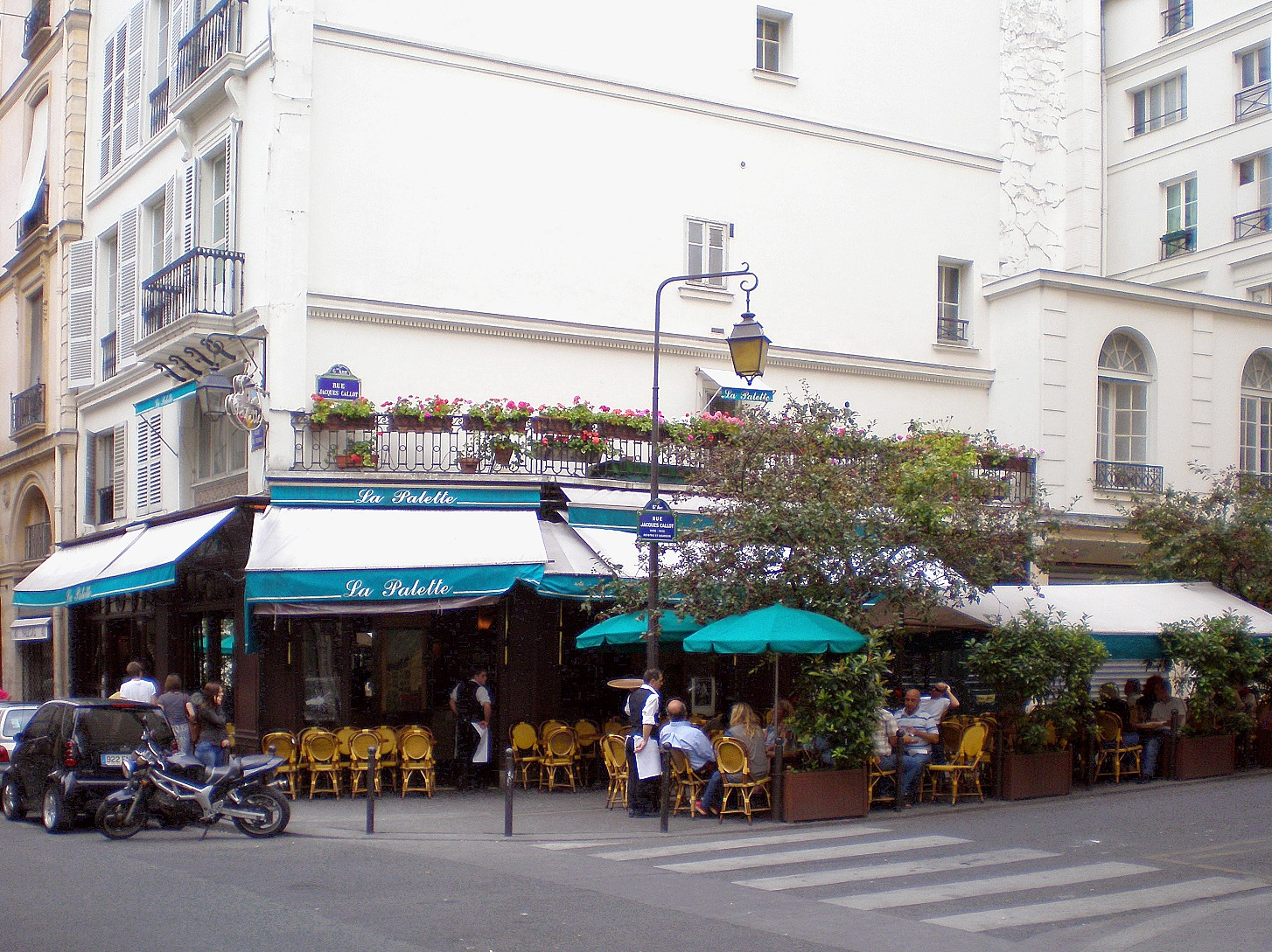 Jacques Callot street - Paris